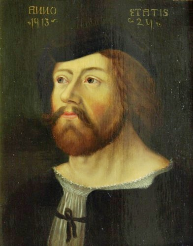 Otto I. von Pfalz-Mosbach (1390-1461), Wittelsbacher